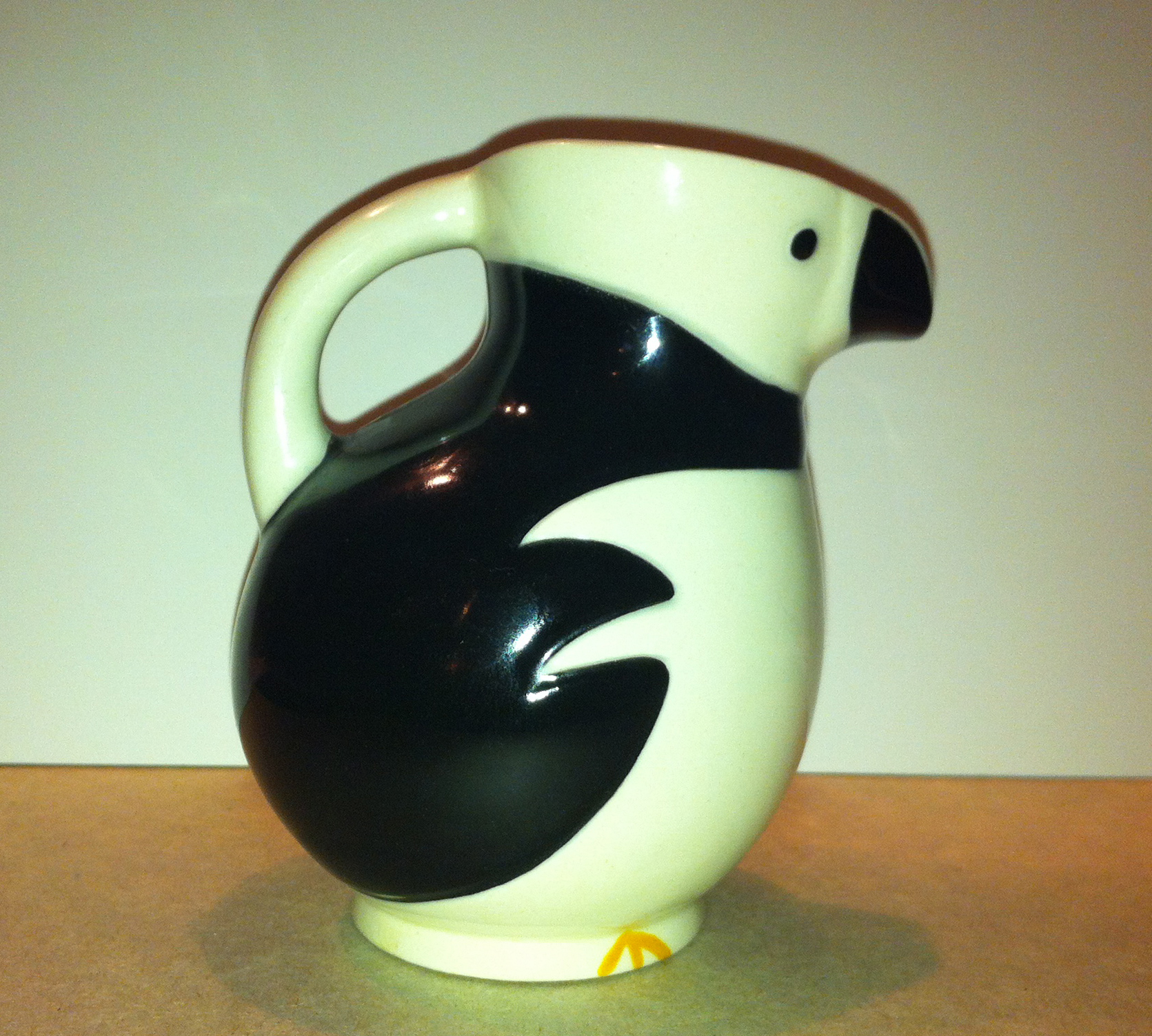 «Alkemugge» (=Razorbill pitcher), designed by the Norwegian artist Jacob K. Sømme (1862–1940). The pitcher shown in the photo was made in Sømme's mould long after his dead, by Bernt A. Andersen, who had bought the rights and moulds.